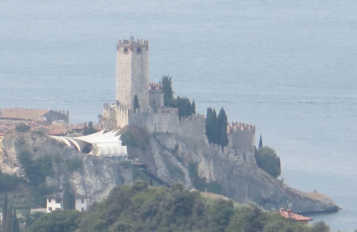 View on Scalgieri castle from Monte Baldo, Lake Garda, Italy